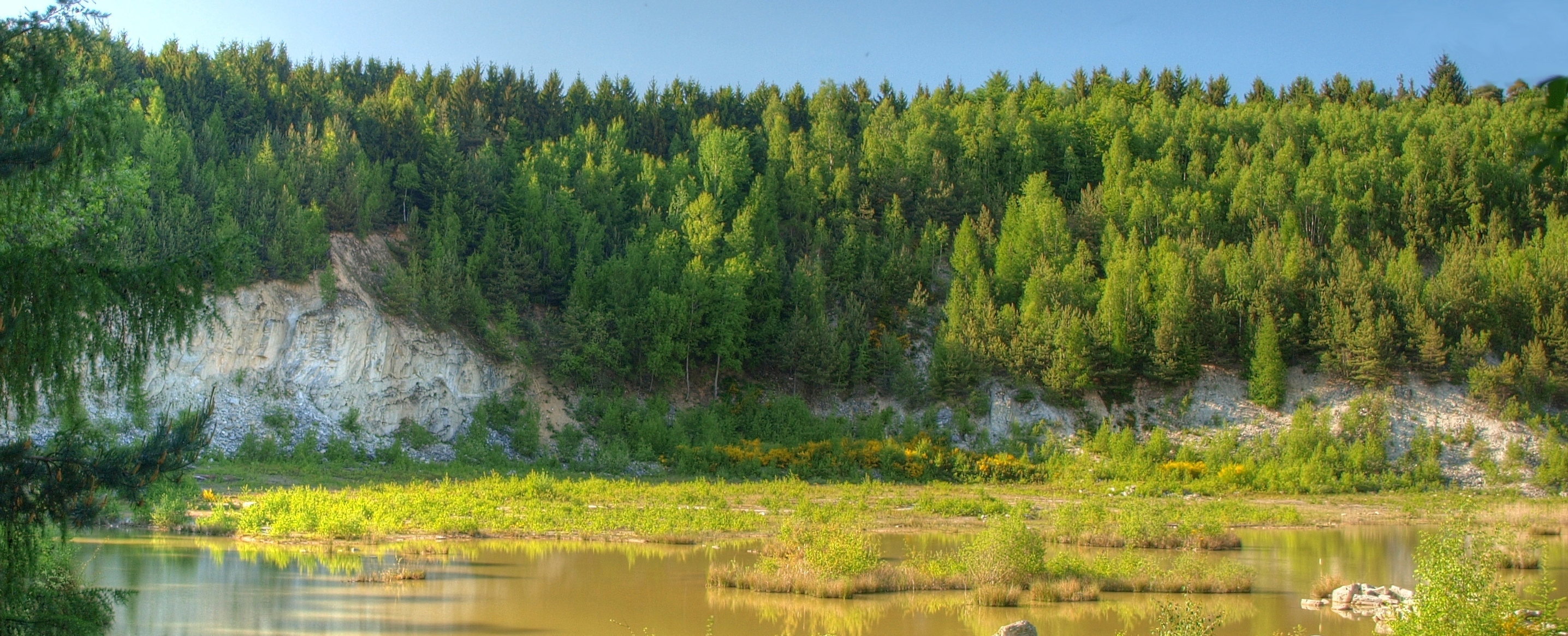 Nature reseve Quarzitbruch bei Rosbach, former quartzite quarry near Rosbach vor der Höhe, lower entry (tone mapped HDRI) jpg